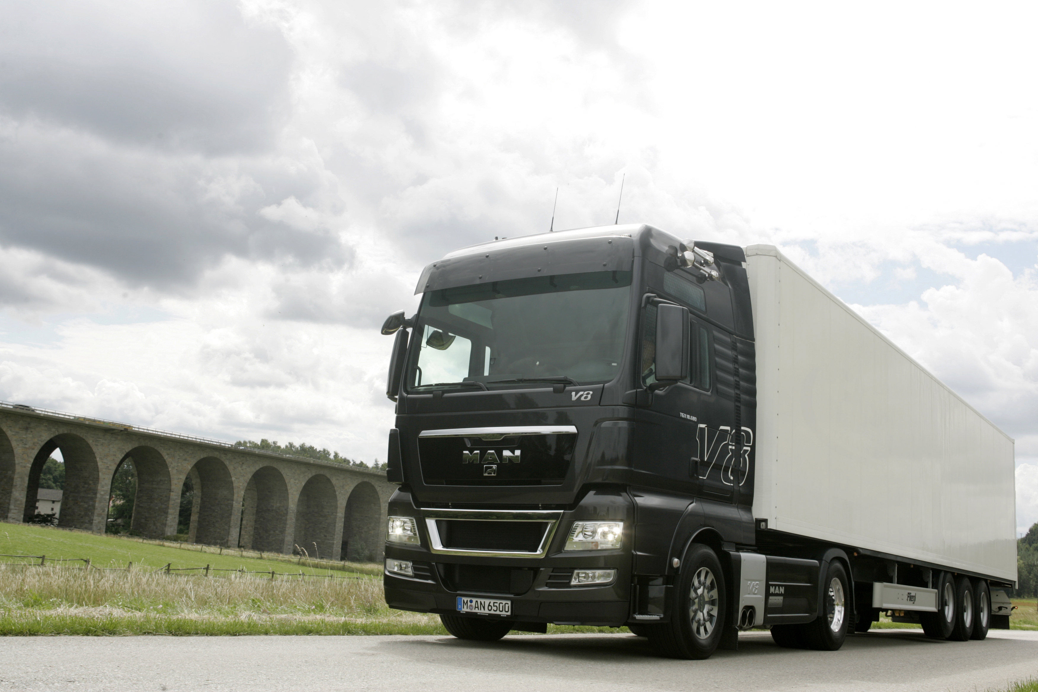 MAN V8 TGX 18.680